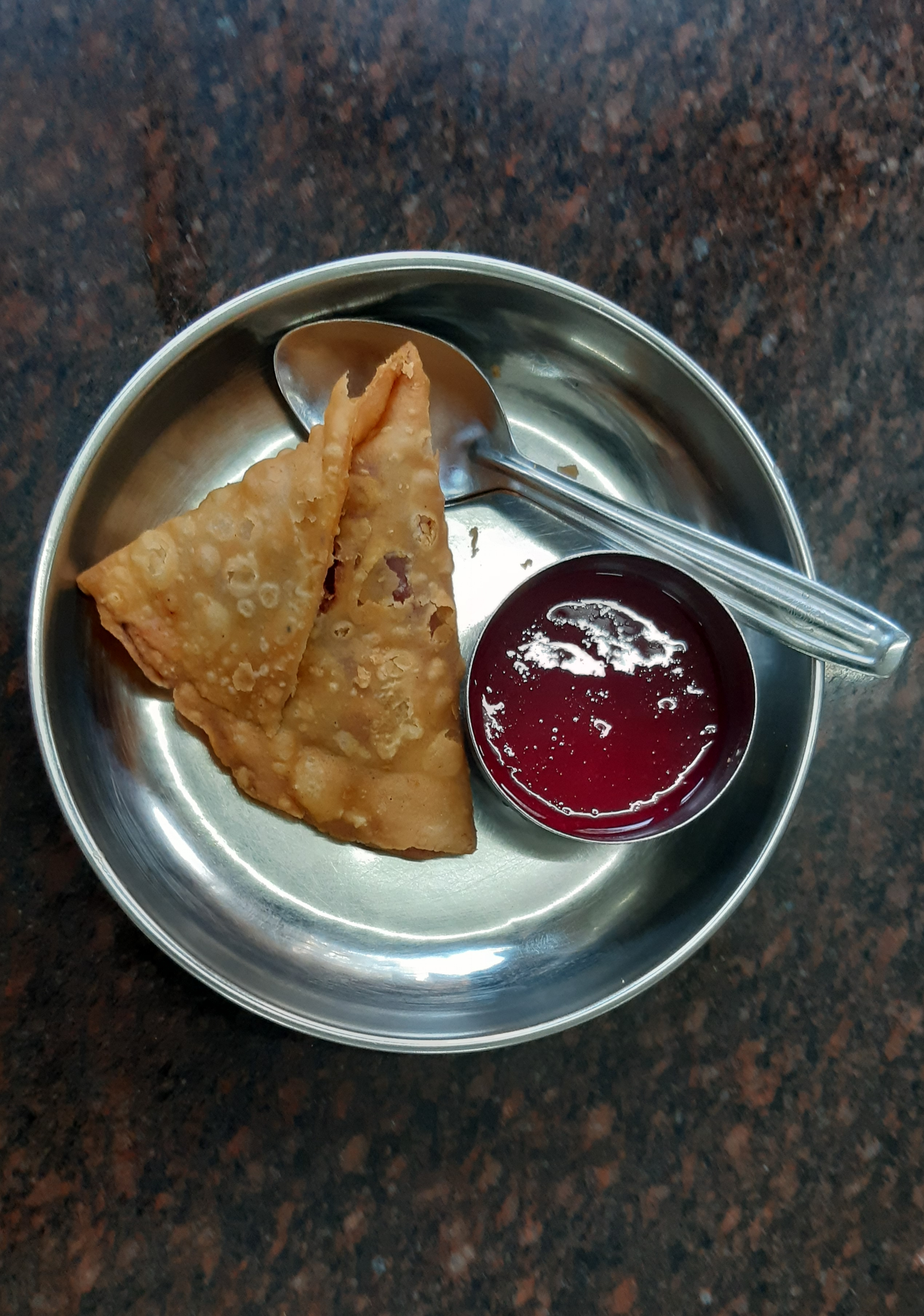 Samosa is a tea snack